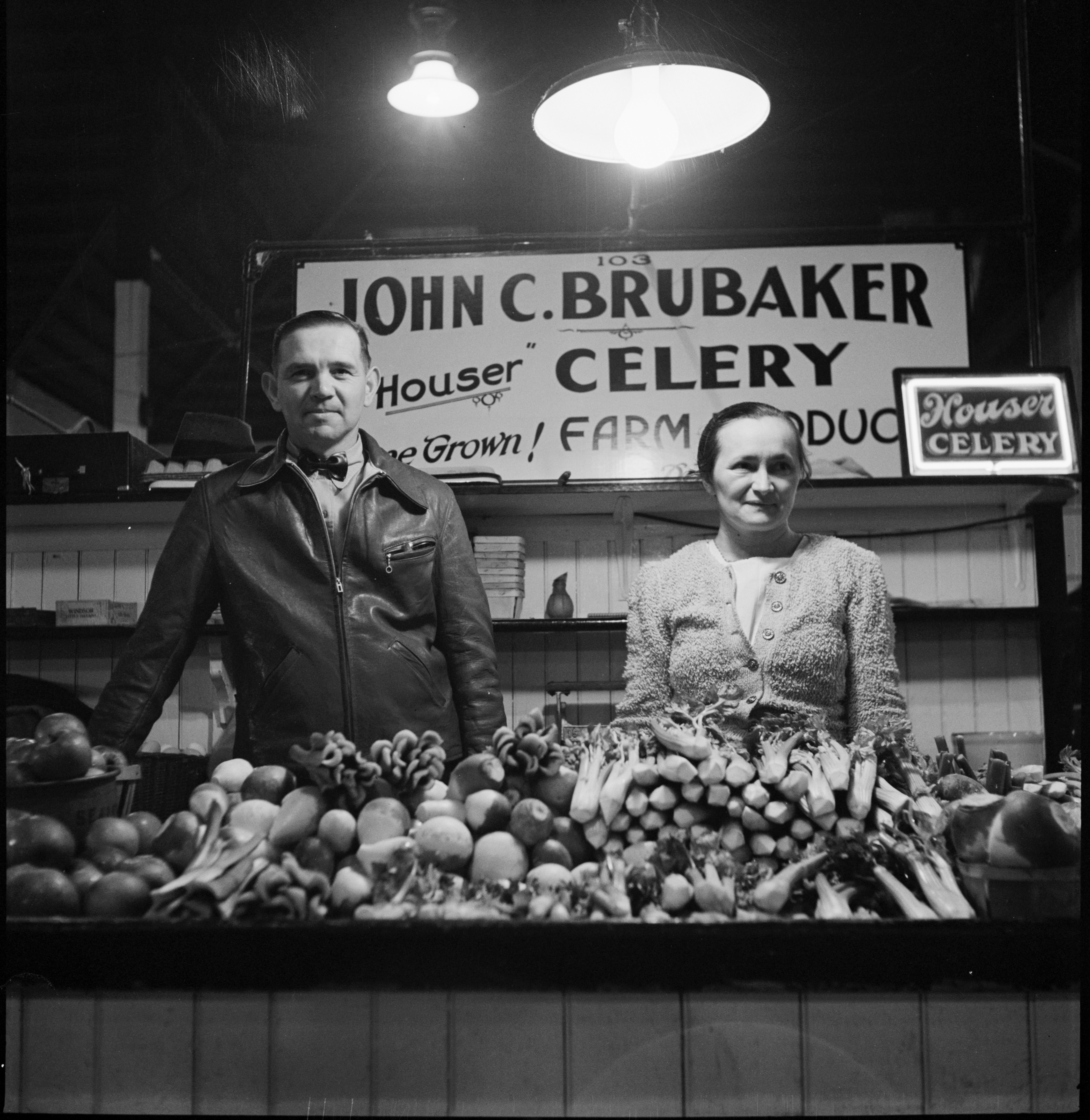 From Library of Congress metadata: Title: Farmer and his wife at her stall in Central Market. Lancaster, Pennsylvania Creator(s): Collins, Marjory, 1912-1985, photographer Date Created/Published: 1942 Nov. Medium: 1 negative : nitrate ; 2 1/4 x 2 1/4 inches or smaller. Reproduction Number: LC-DIG-fsa-8d23430 (digital file from original neg.) LC-USW3-011008-E (b&w film nitrate neg.) Rights Advisory: No known restrictions. For information, see U.S. Farm Security Administration/Office of War Information Black & White Photographs( Call Number: LC-USW3- 011008-E [P&P] LOT 262 (corresponding photographic print) Other Number: D 6446 Repository: Library of Congress Prints and Photographs Division Washington, D.C. 20540 Notes: Title and other information from caption card. Transfer; United States. Office of War Information. Overseas Picture Division. Washington Division; 1944. More information about the FSA/OWI Collection is available at Film copy on SIS roll 11, frame 1583. Subjects: United States--Pennsylvania--Lancaster.--Lancaster County